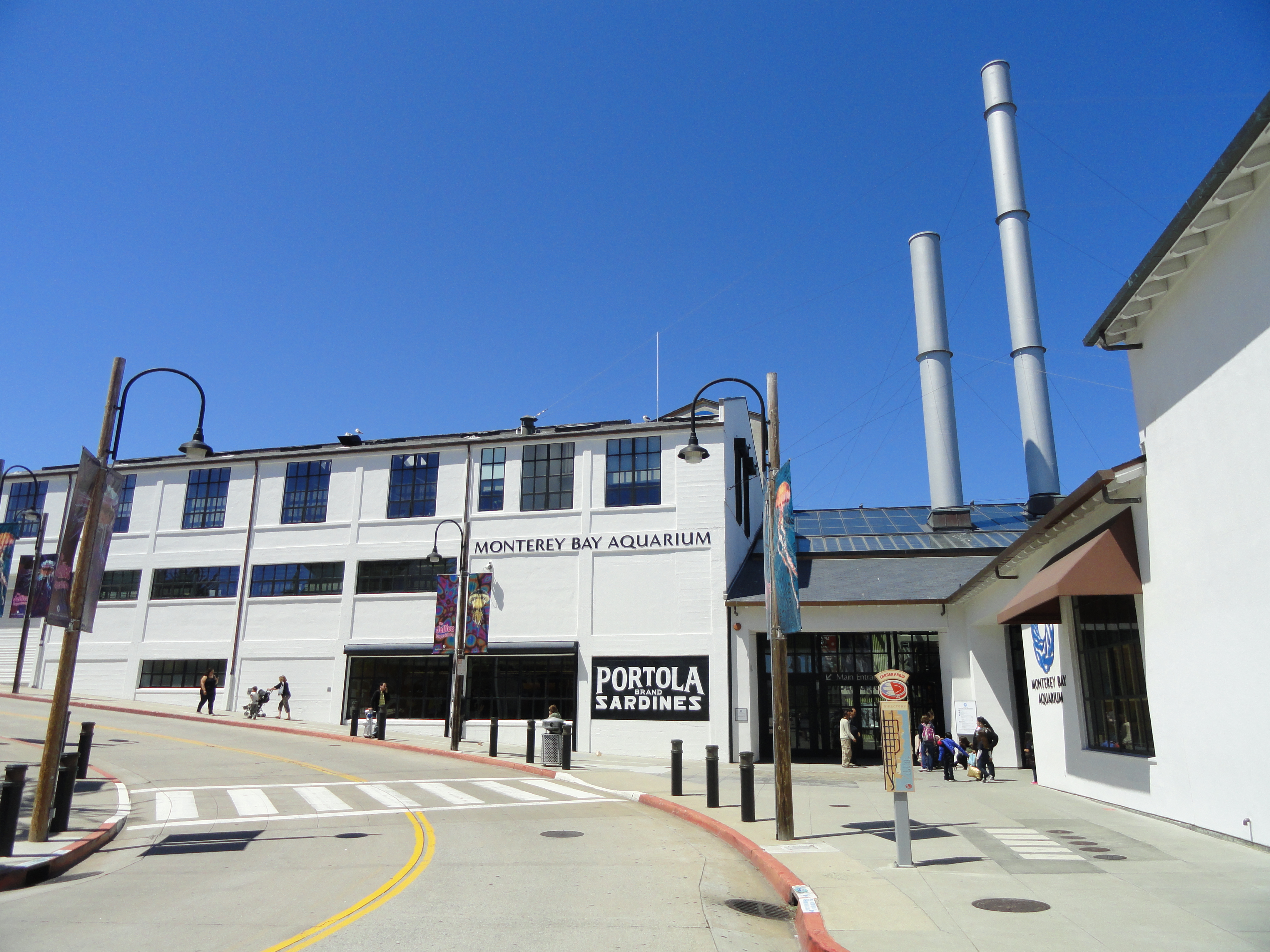 Interior view of the Monterey Bay Aquarium, Monterey County, California, USA.